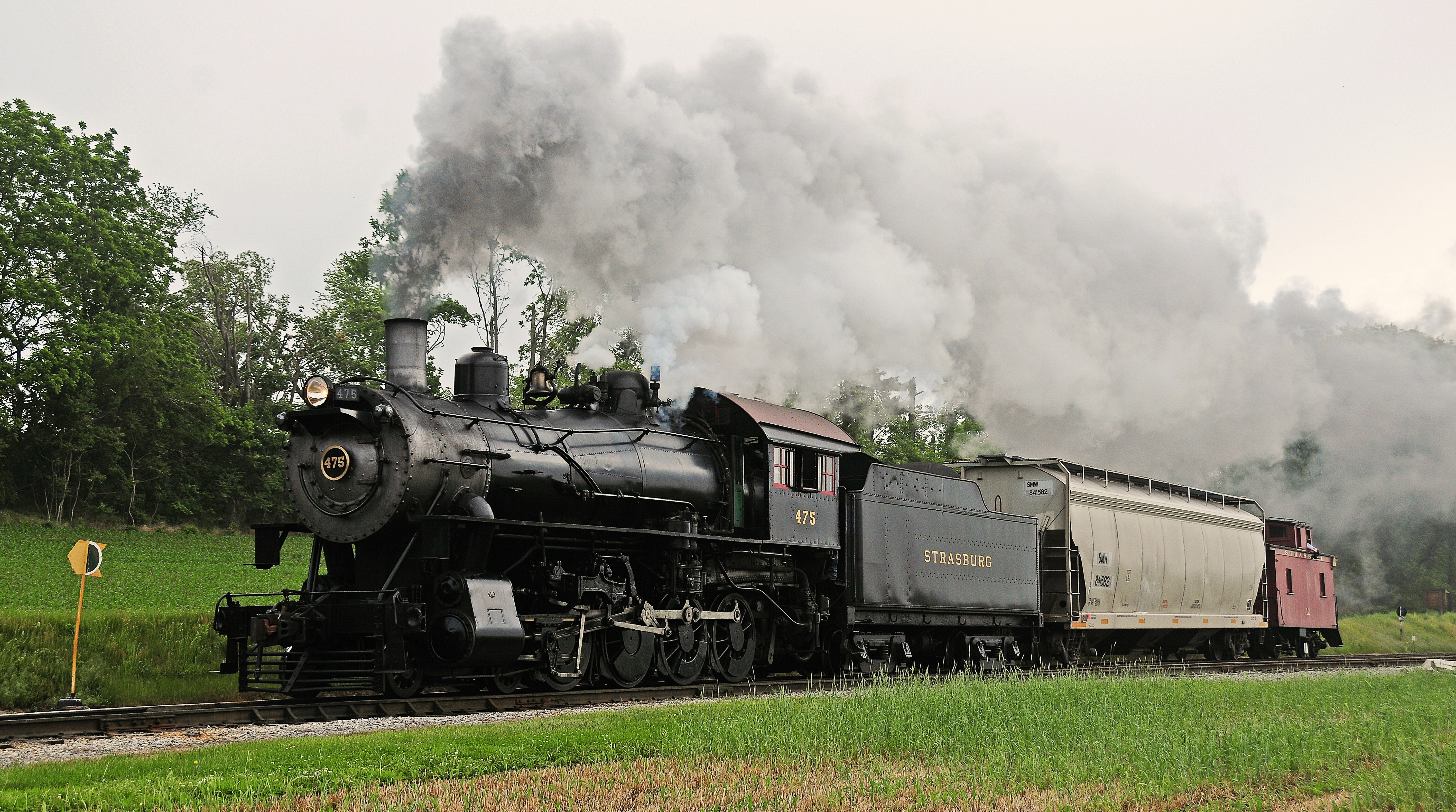 Strasburg 4-8-0 #475 on the way to Strasburg with a one car freight at Cherry Hill Rd. May 22nd, 2013